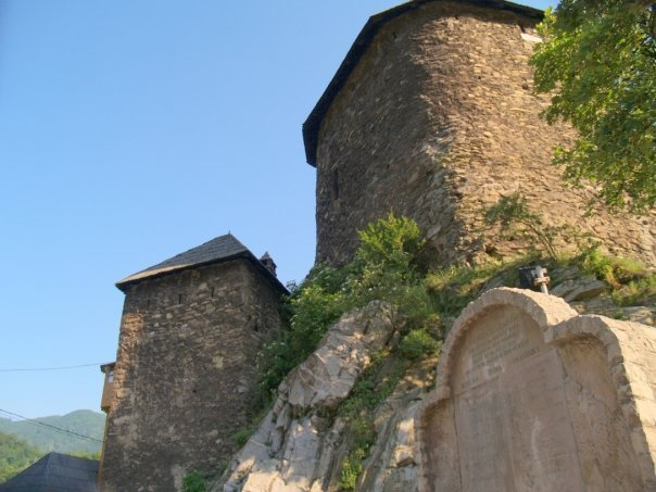 Vranduk fortress